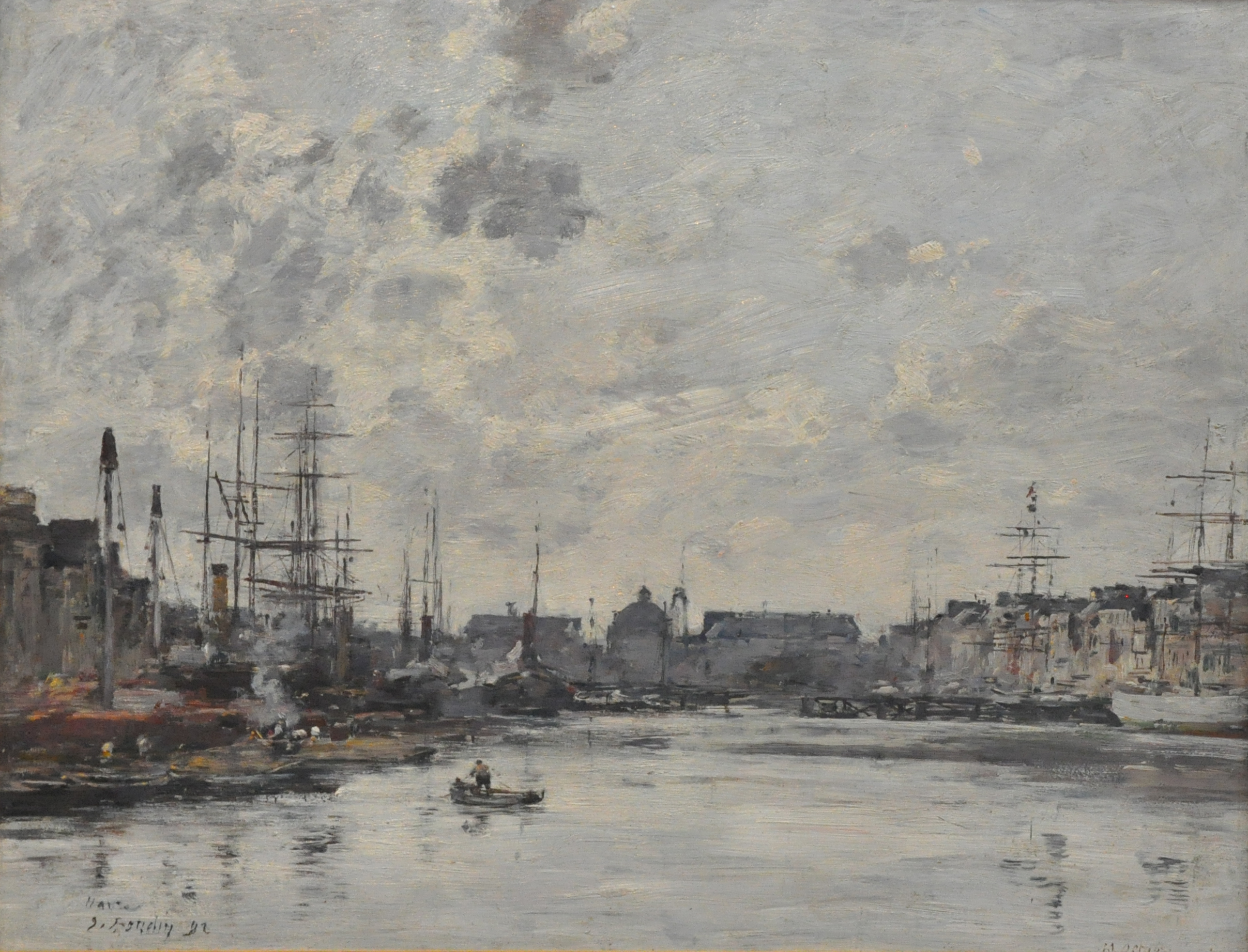 Le bassin du commerce (Le Havre, Normandy, France)) by Eugène Boudin, 1892